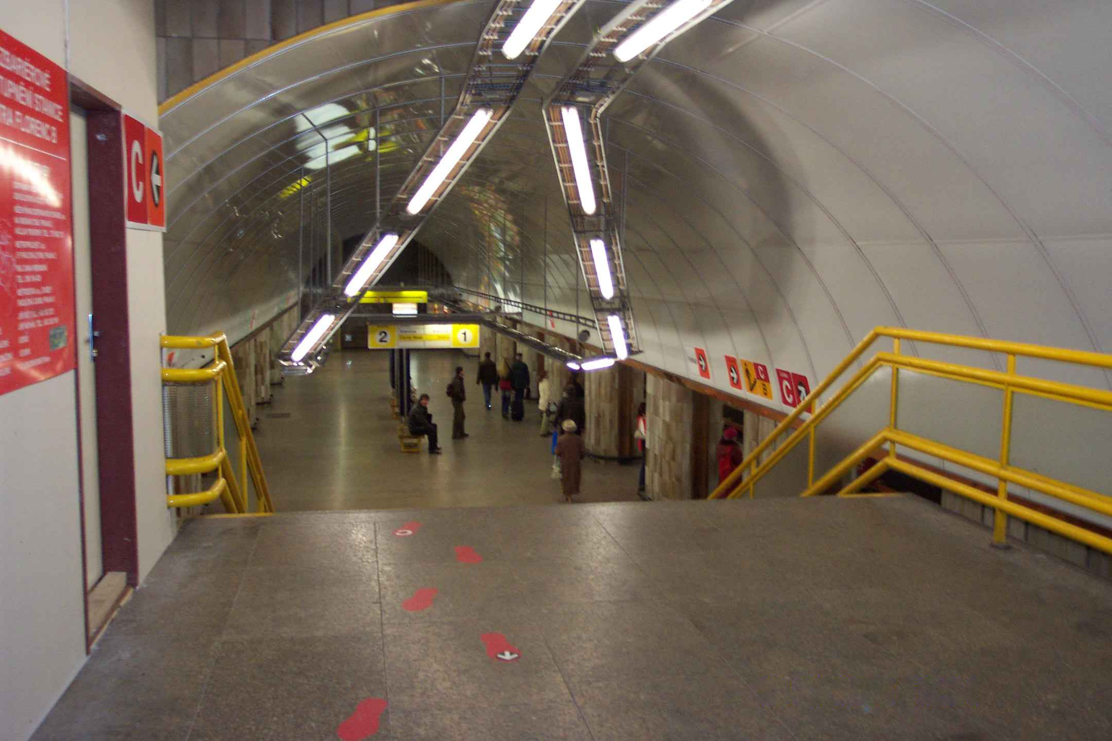 Middle tunnel of station Florenc (line B).